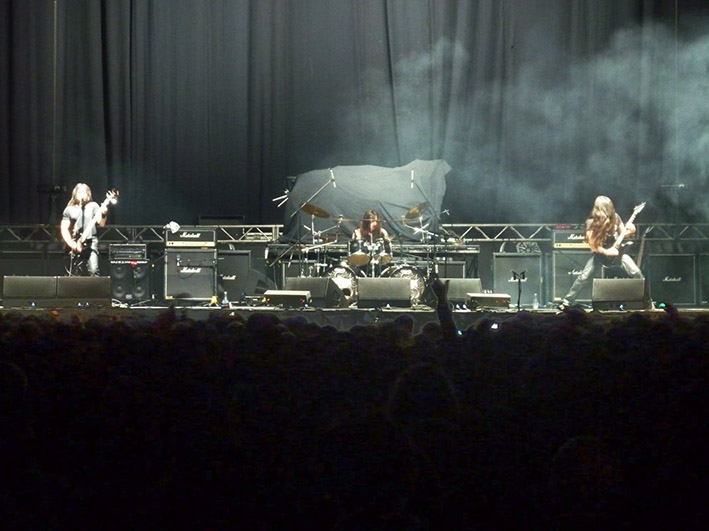 thornafire opening for Slayer